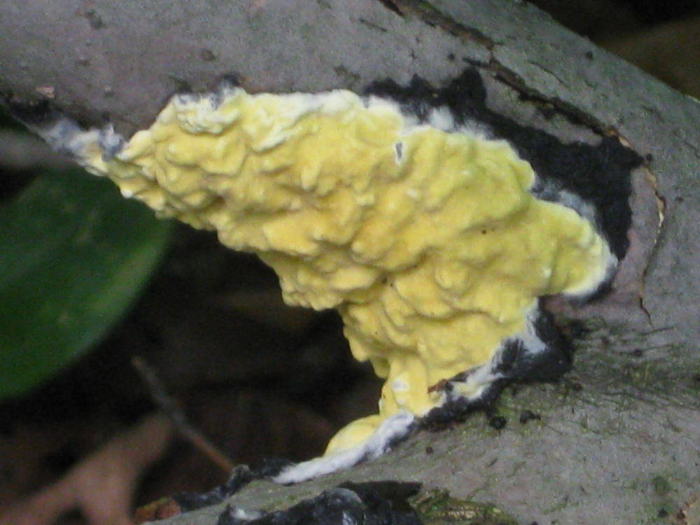 The ascomycete fungus Hypocrea sulphurea. Specimens found in Port Dover, Ontario, Canada.